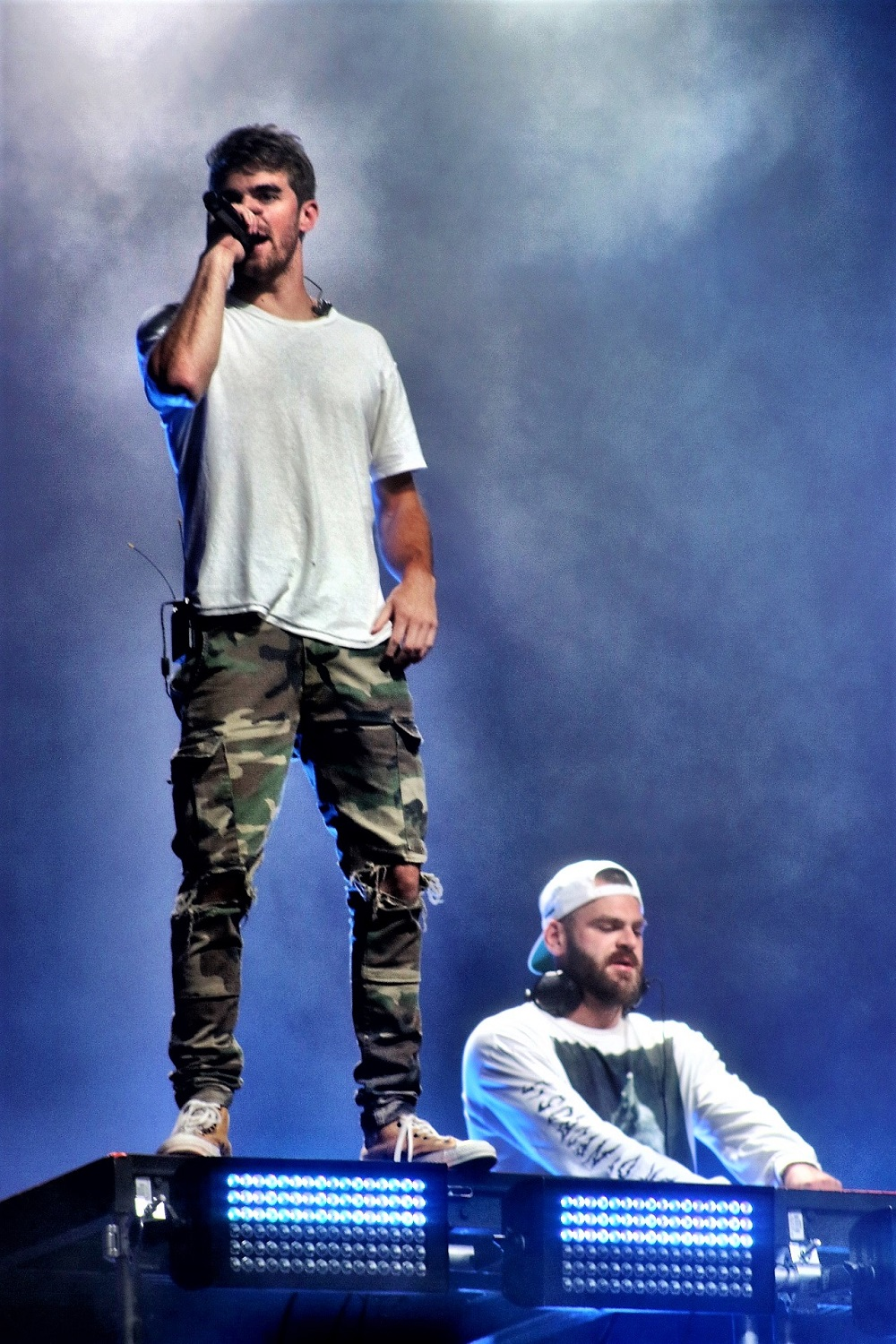 The Chainsmokers performing at Grandoozy on September 14, 2018 in Denver, Colorado.